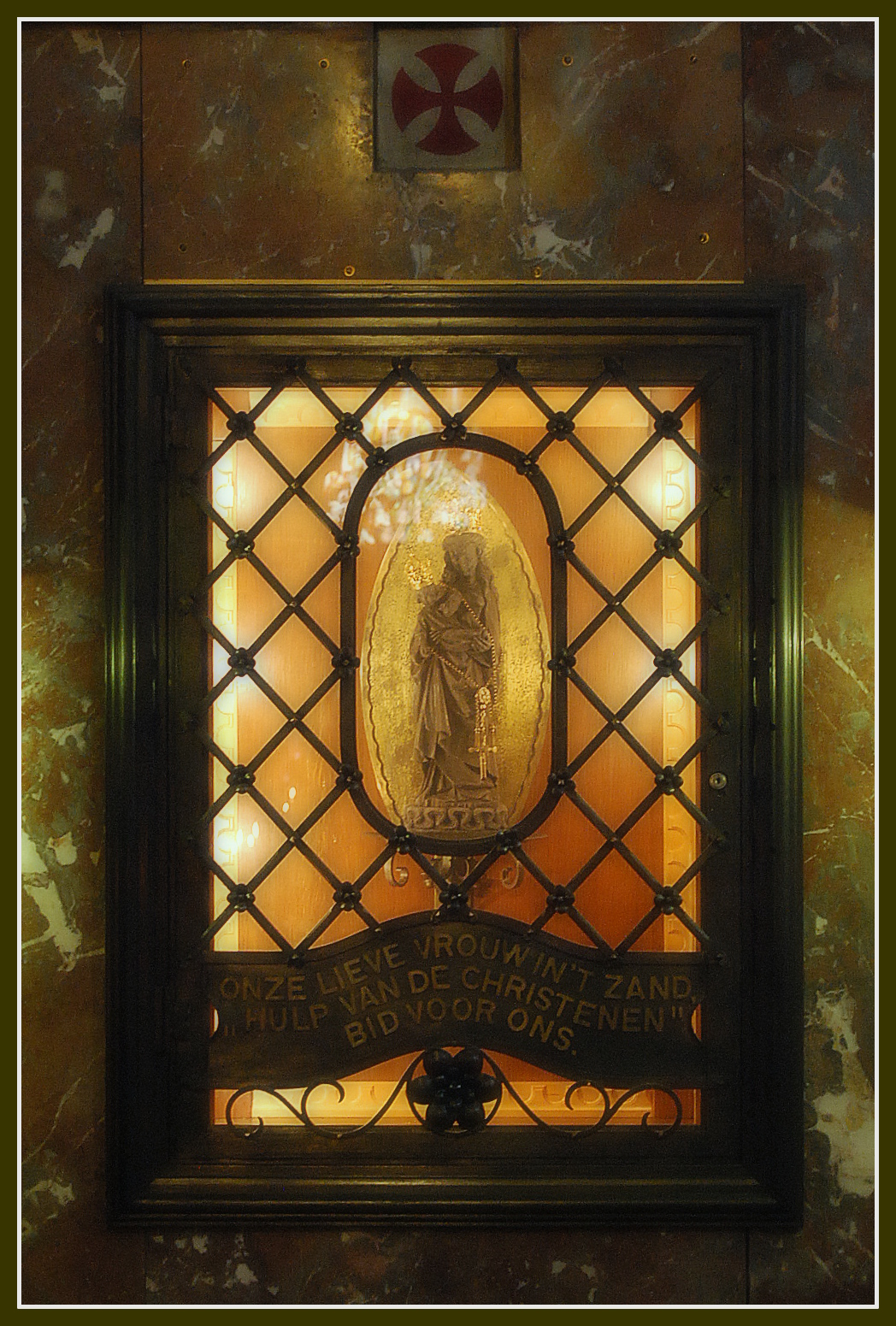 Saint Bonifacius Church Leeuwarden